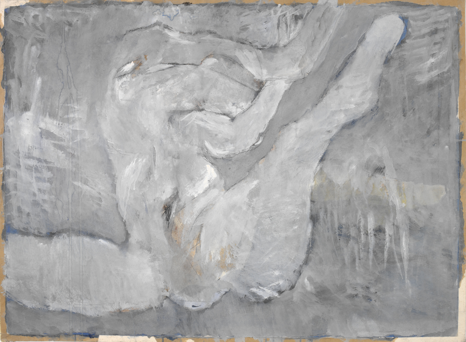 Ballerina, tempera on paper, 90 x 66 cm (2nd half of 1950s)